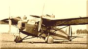 Italian Caproni Ca.102 airliner